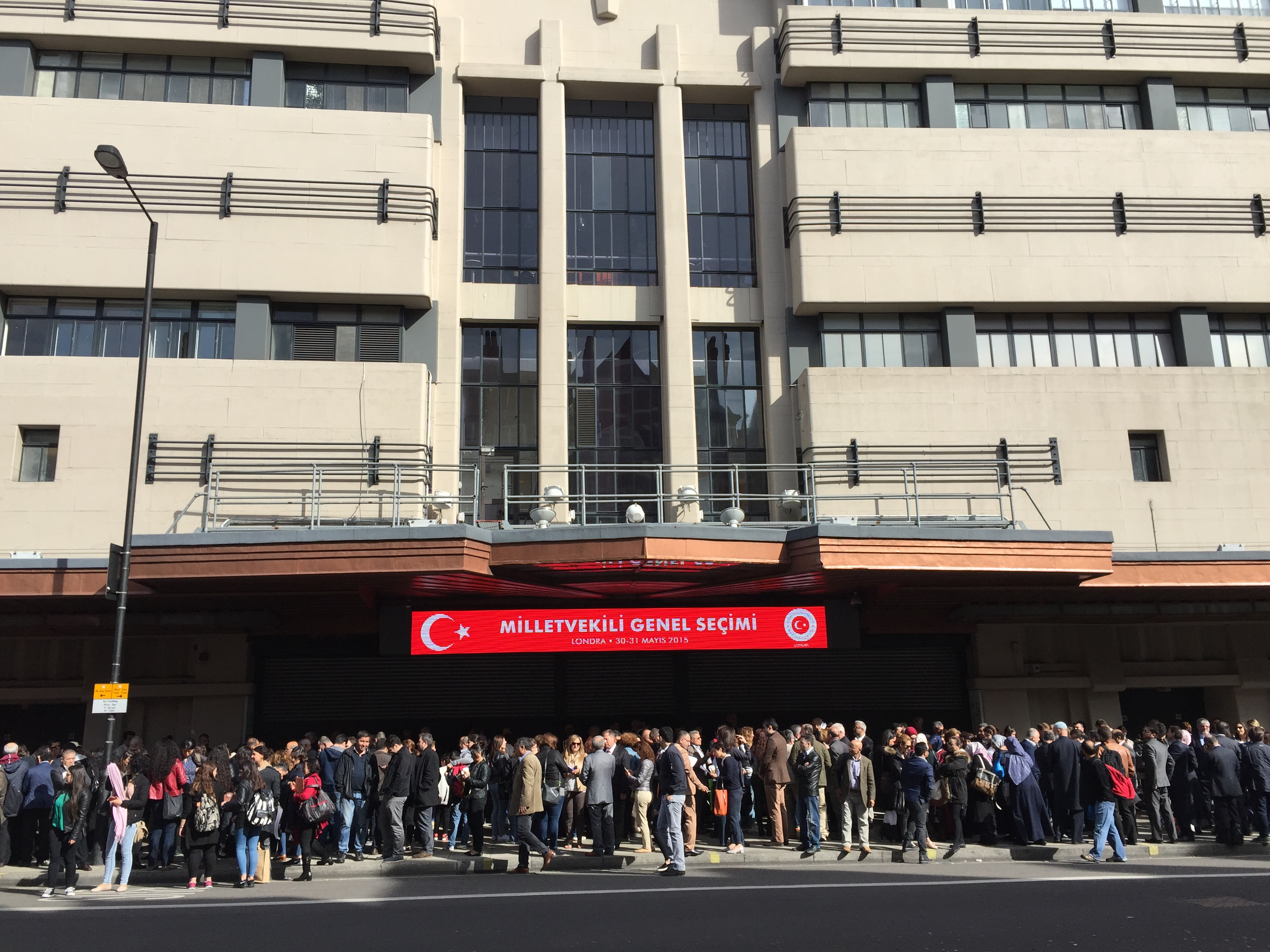 Olympia (Kensington, London) used as the venue for Turkish expats voting in the 2015 general election between 30 and 31 May 2015